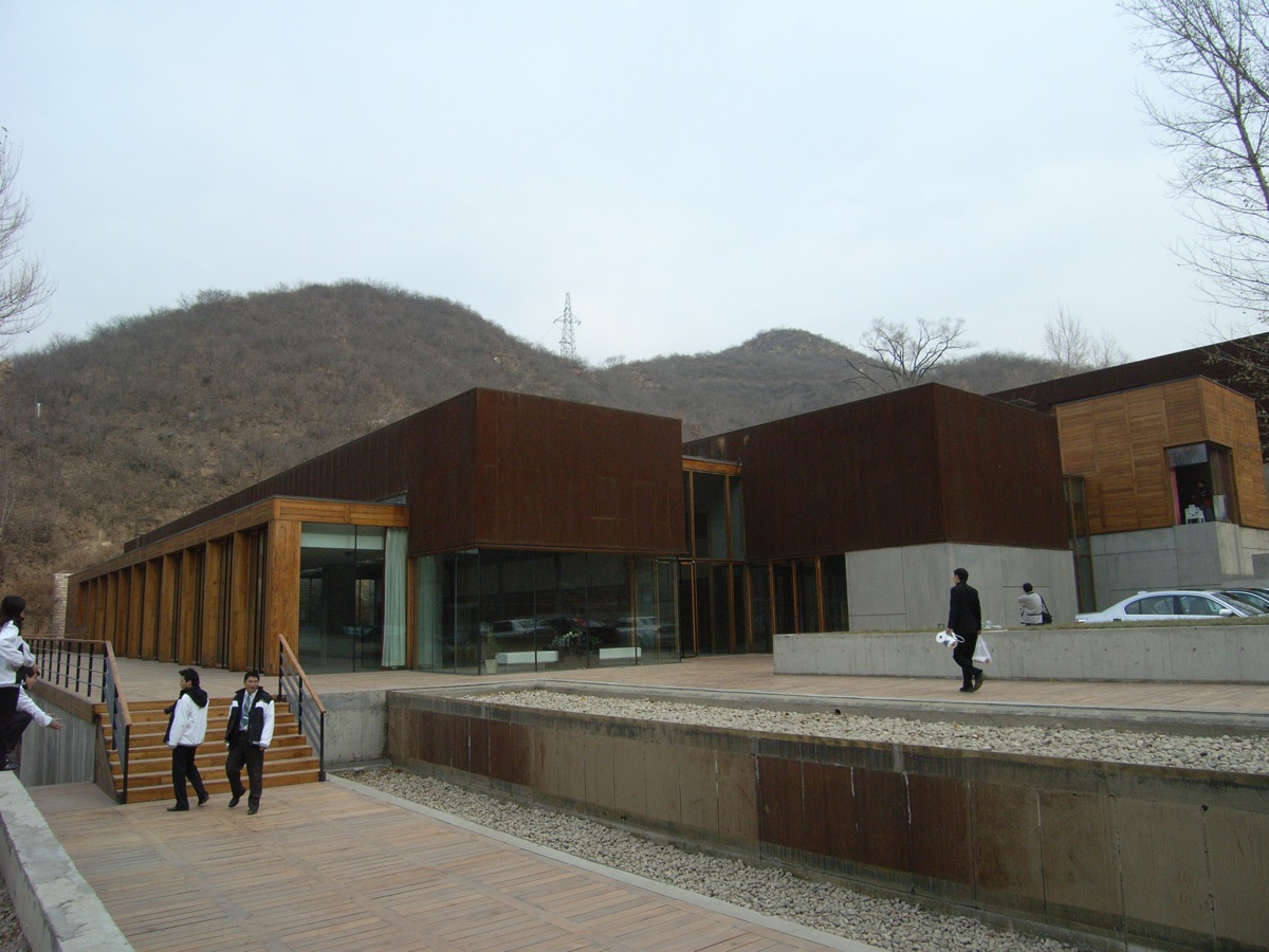 Club house of "commune by the Great Wall" in Beijing, China, designed by Korean architect Seung H-Sang